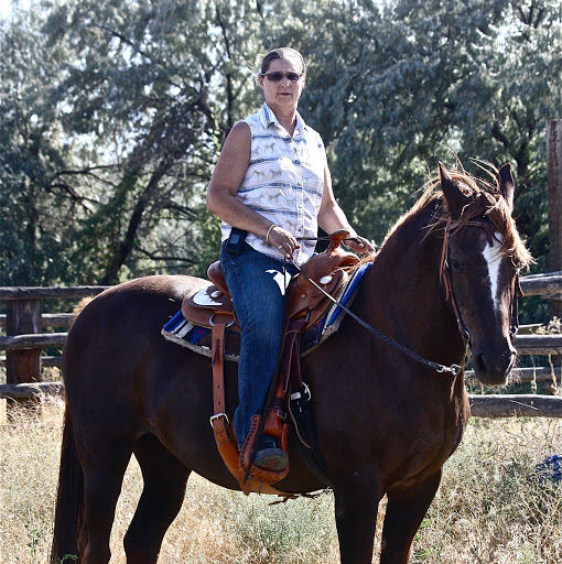 Princess Irina horse riding in September 2014